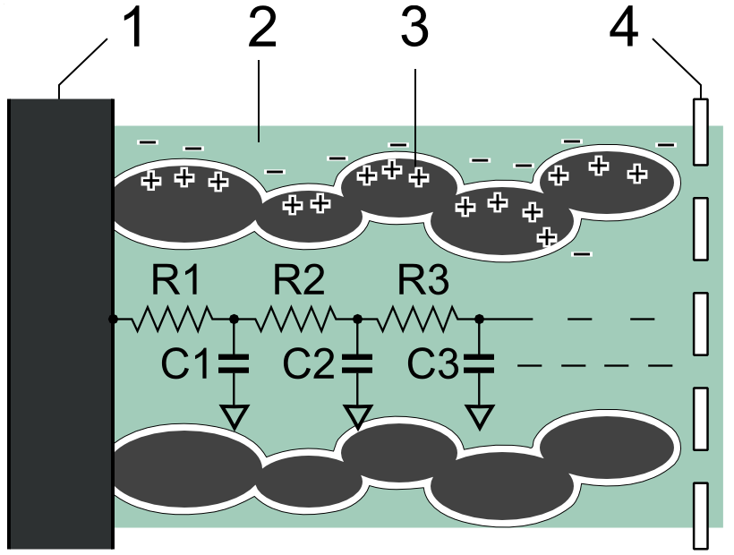 Electric double-layer capacitor model(#2) No Text 1.Collector 2.Electrolytic solution 3.Activated carbon 4.Separator